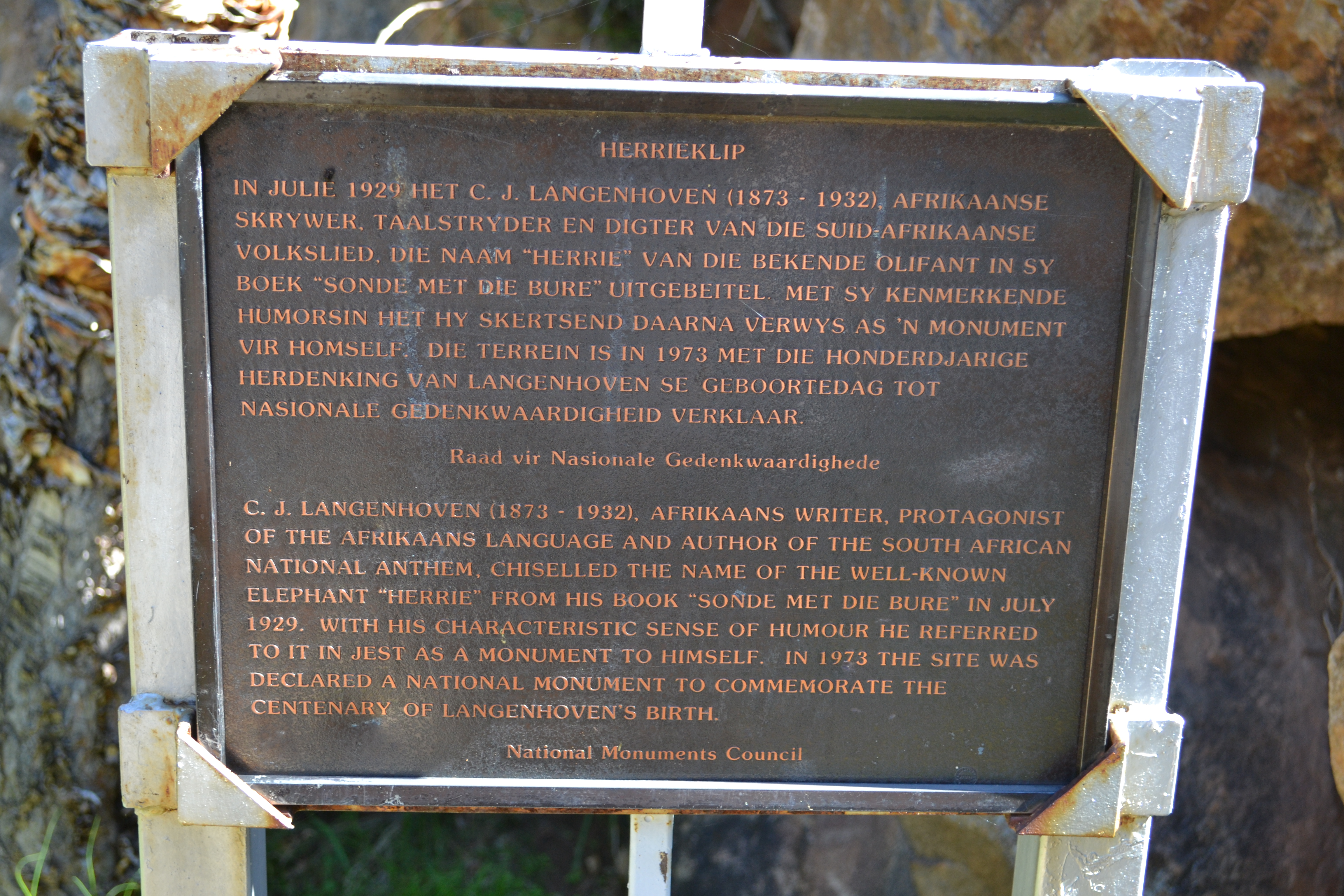 Meiringspoort, Little Karoo, Western Cape.